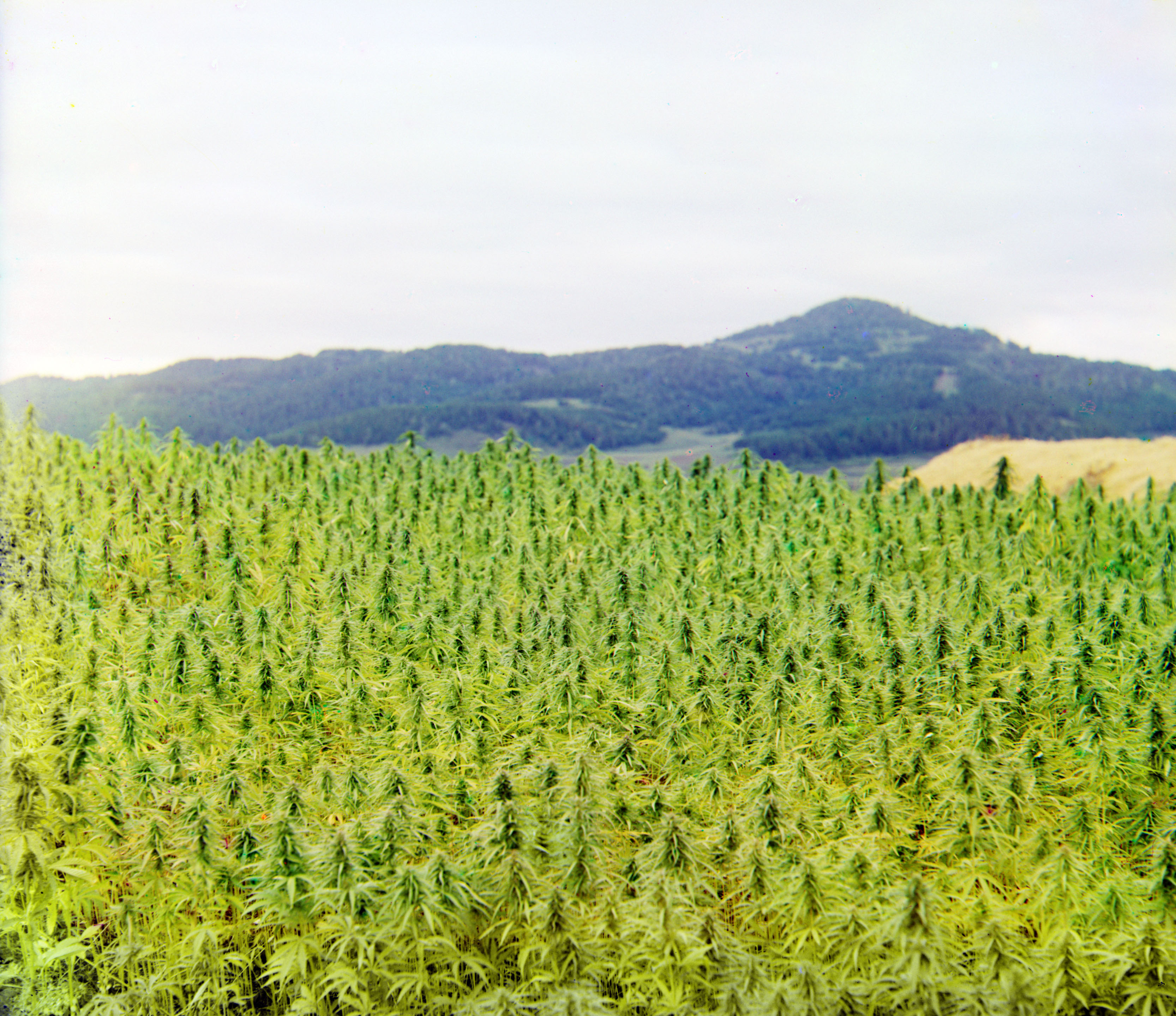 Hemp field